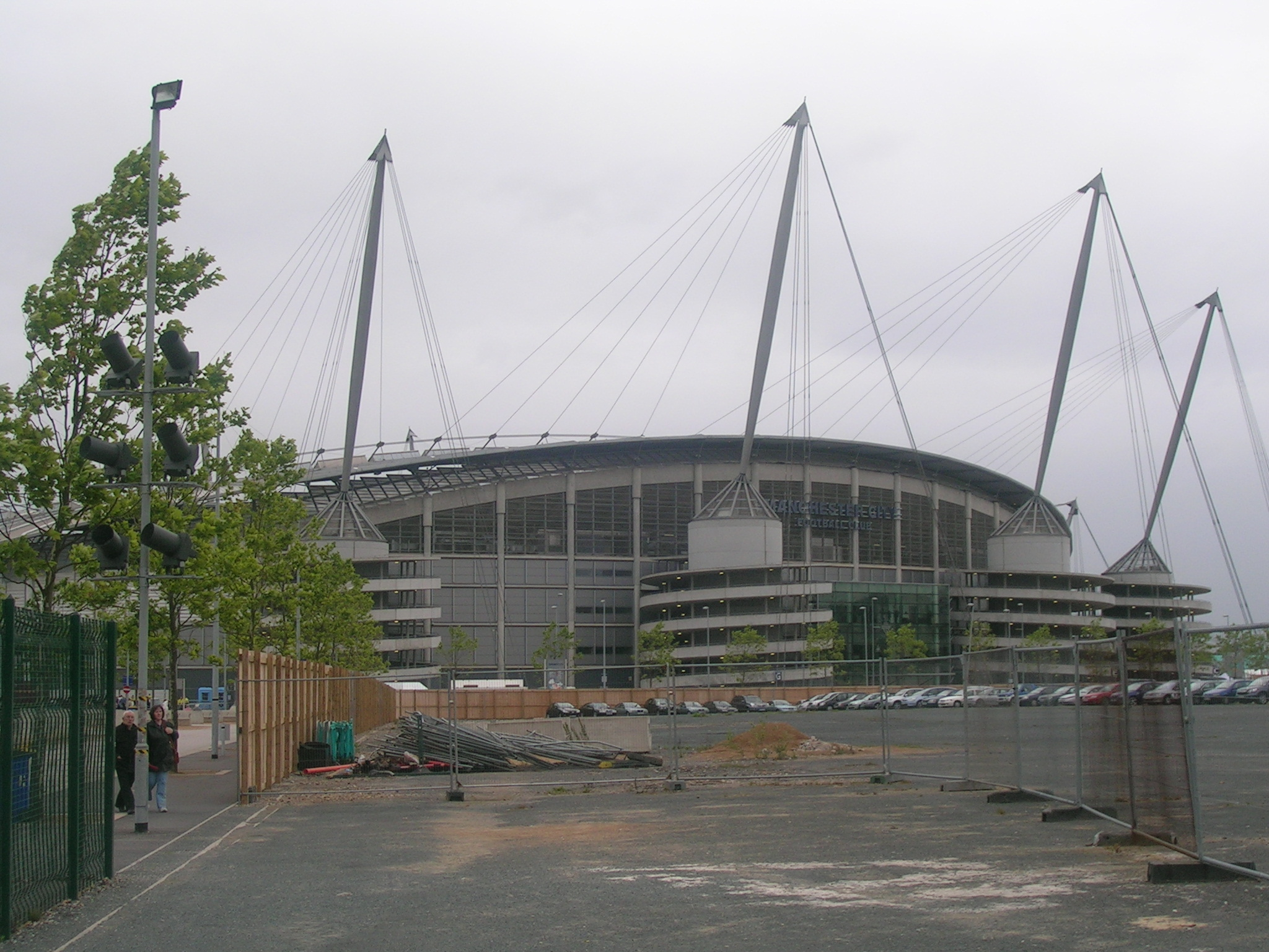 Manchester City's Football Ground - the City of Manchester Stadium